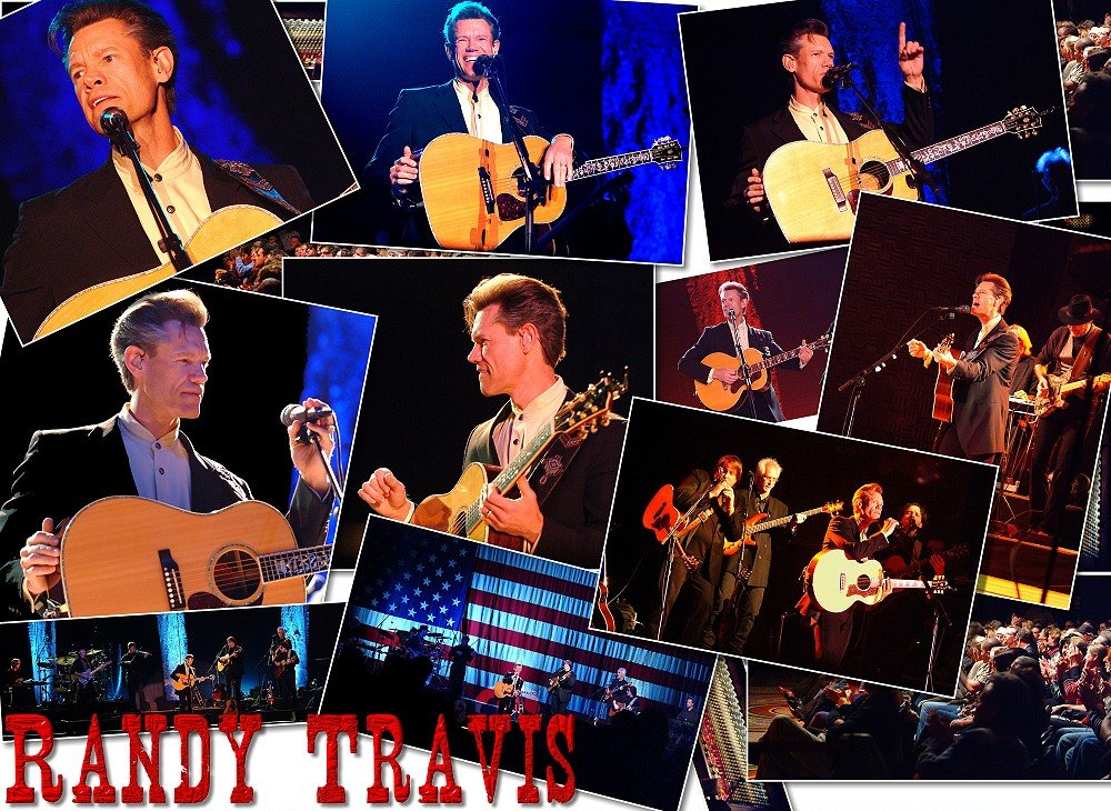 Randy Travis performing at the Chumash Casino Resort, Santa Ynez, California.